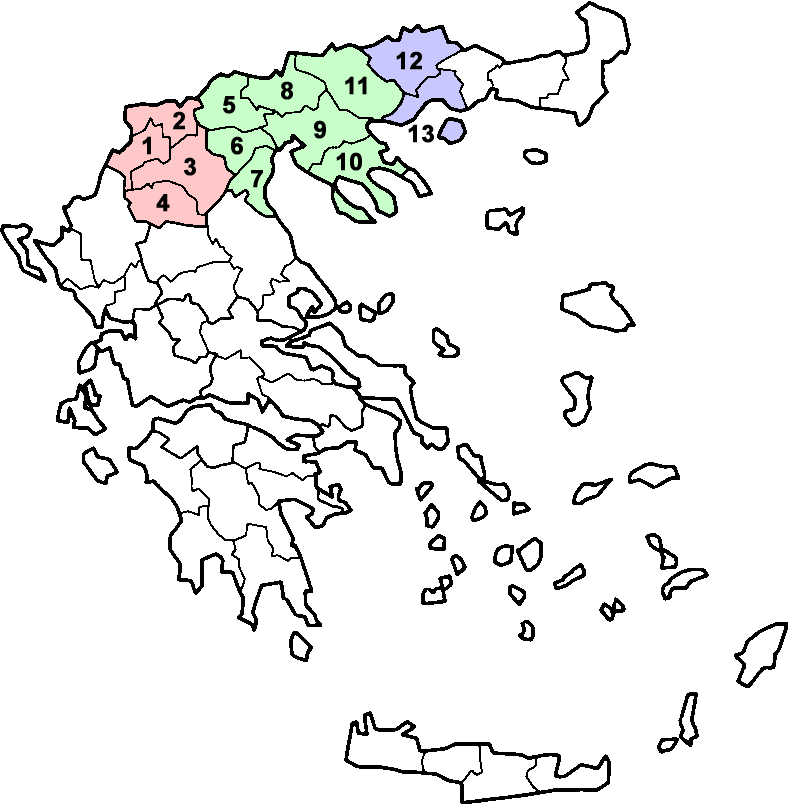 Prefectures of Macedonia, Greece